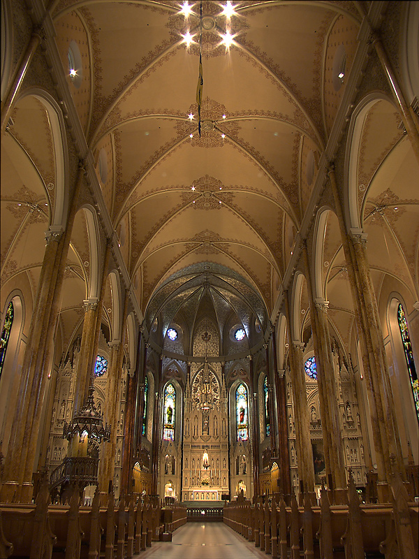 St.Patrick's Basilica, Montreal, Quebec, Canada.